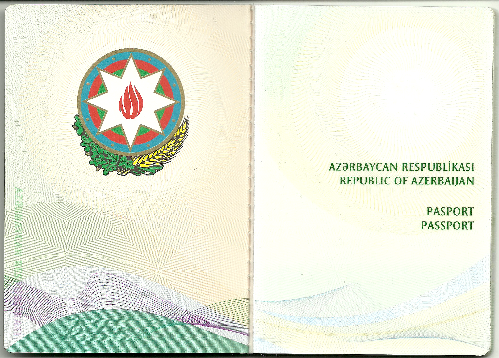 The first page of the Azerbaijani passport